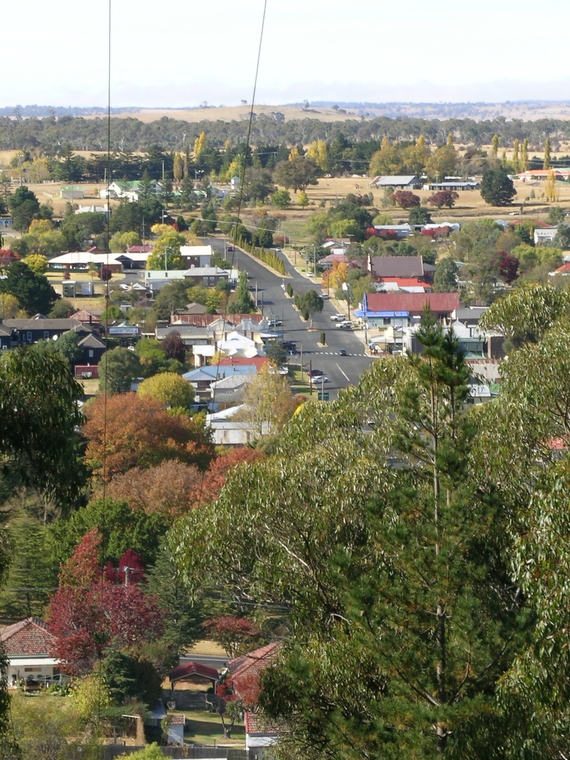 Uralla, NSW, with the showground in the upper right background.